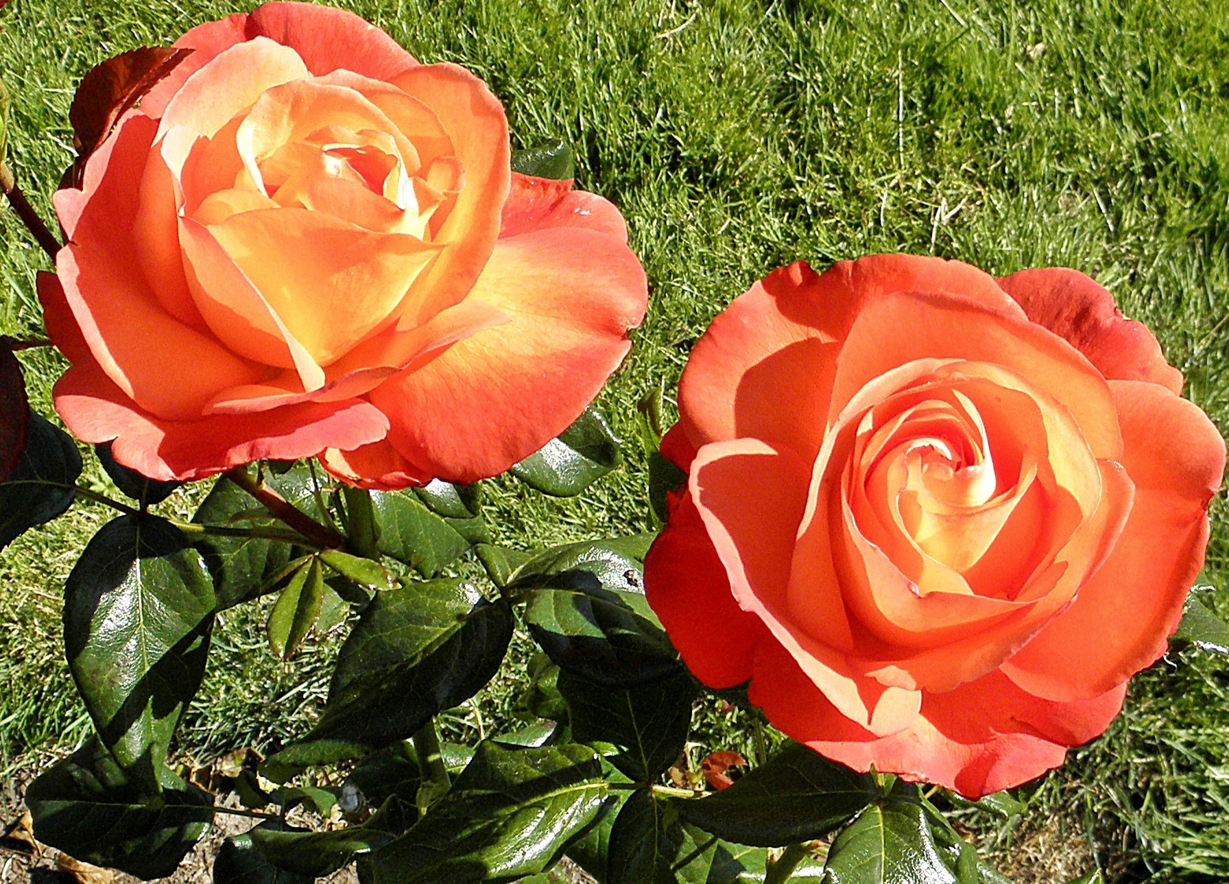 Hybrid Tea Rose 'Voodoo'; Bush's Pasture Park Rose Garden, Salem, Oregon. 97301